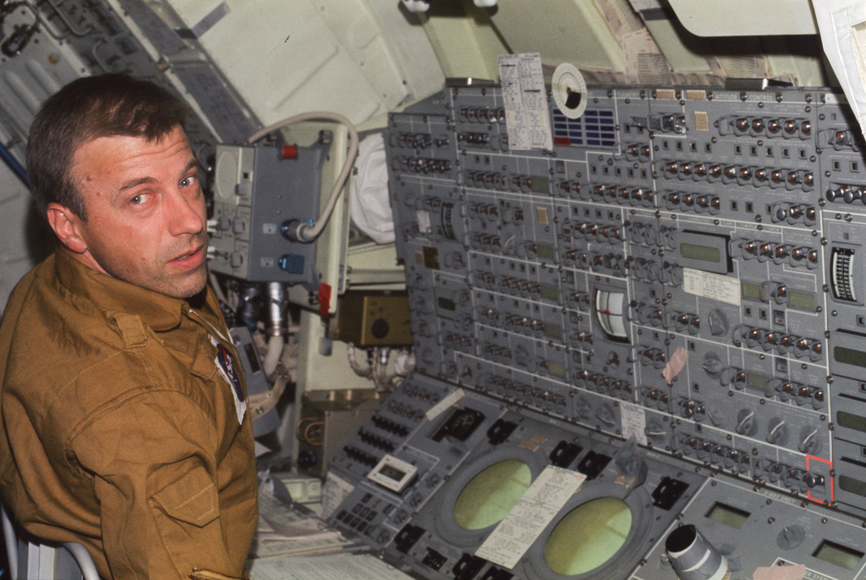 NASA Astronaut Paul J. Weitz, Skylab 2 pilot, mans the control and display console of the Apollo Telescope Mount (ATM) in this onboard view photographed in Earth orbit. The ATM C&D console is located in the Multiple Docking Adapter (MDA) of the Skylab 1/2 space station. Weitz, along with astronaut Charles Conrad Jr., commander, and scientist-astronaut Joseph P. Kerwin, science pilot, went on to successfully complete a 28-day mission in Earth orbit.